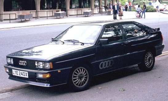 Audi Quattro in London